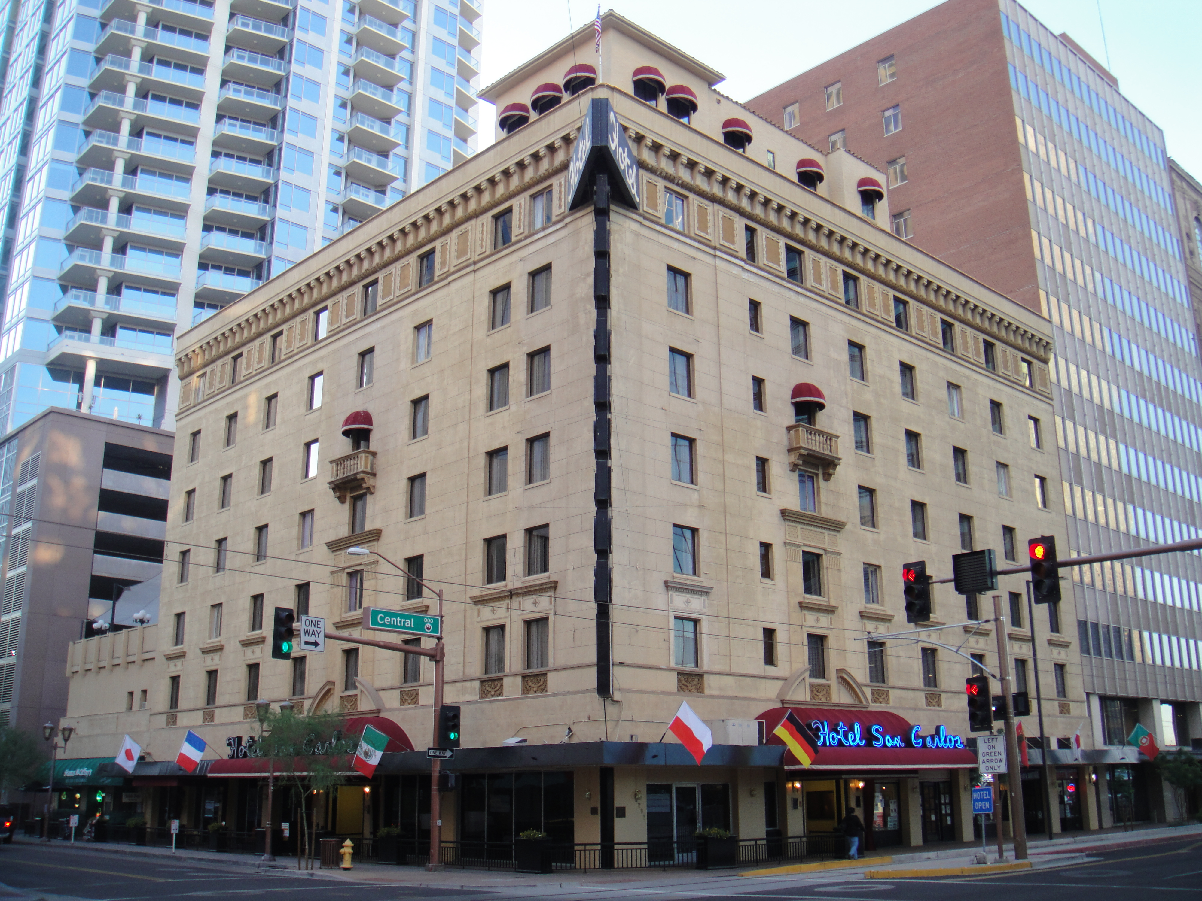 Photo of the South East corner of the Hotel San Carlos Hotel in downtown Phoenix Arizona